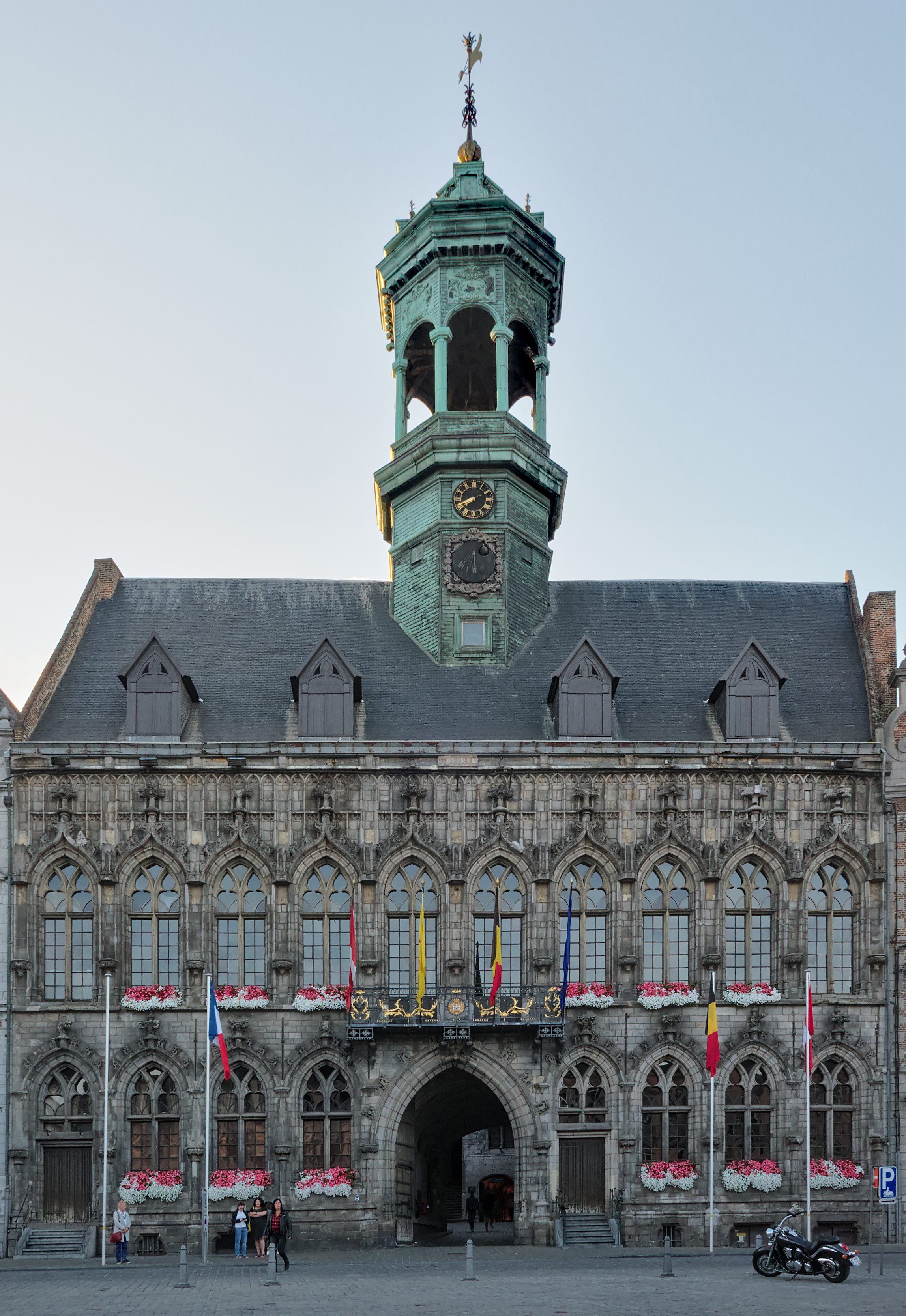 Town hall of Mons This photo of immovable heritage has been taken in the Walloon Region